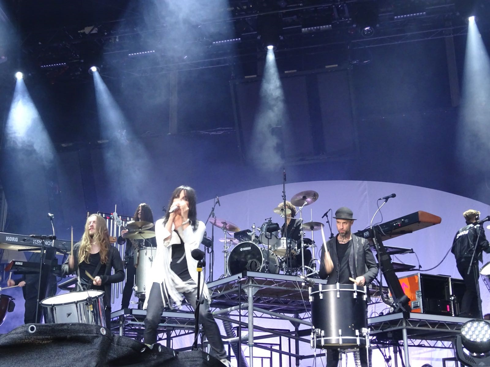 Nena in concert at the Zitadelle, Berlin on 22 June 2018